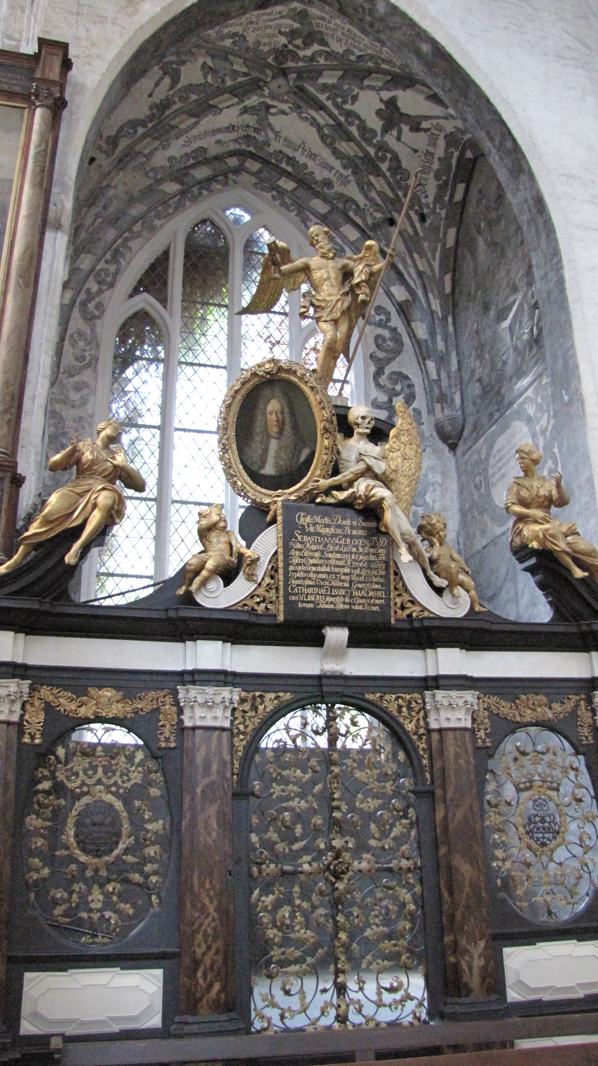 Burial Chapel of mayor Sebastian Gercken (1656-1710) in St. Katharinen, Lübeck